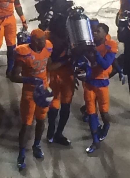 Boise State players celebrating with the Milk Can after reclaiming it with a victory over rival Fresno State on October 17, 2014 at Albertsons Stadium in Boise, Idaho.